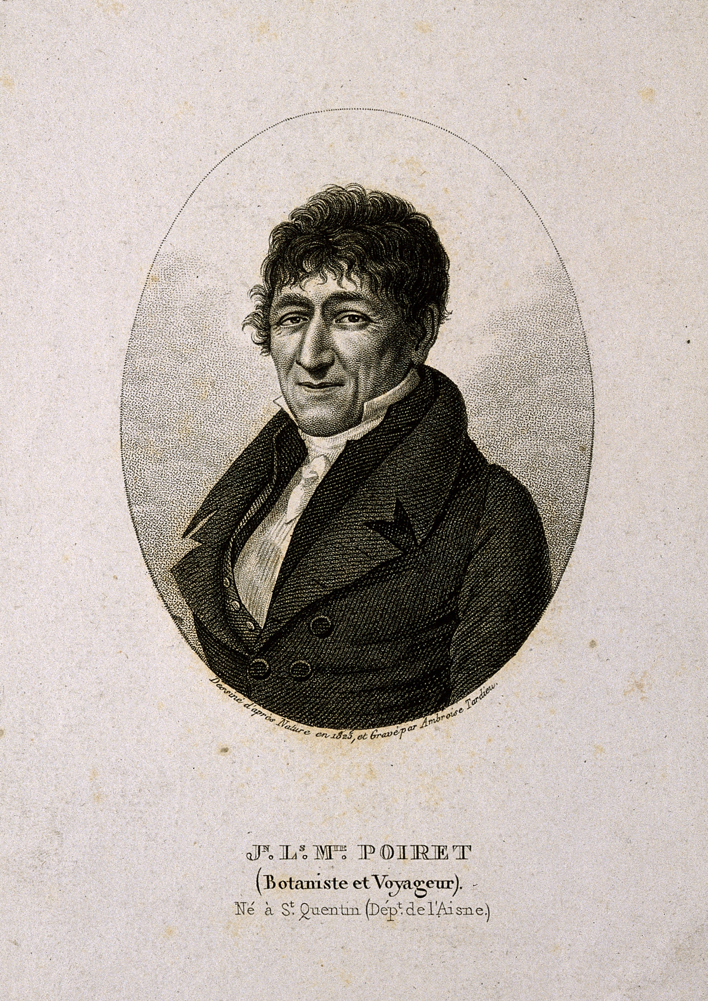 Jean-Louis Marie Poiret. Stipple engraving by A. Tardieu, 1825, after himself. Iconographic Collections Keywords: portrait prints; stipple prints; Jean-Louis-Marie Poiret